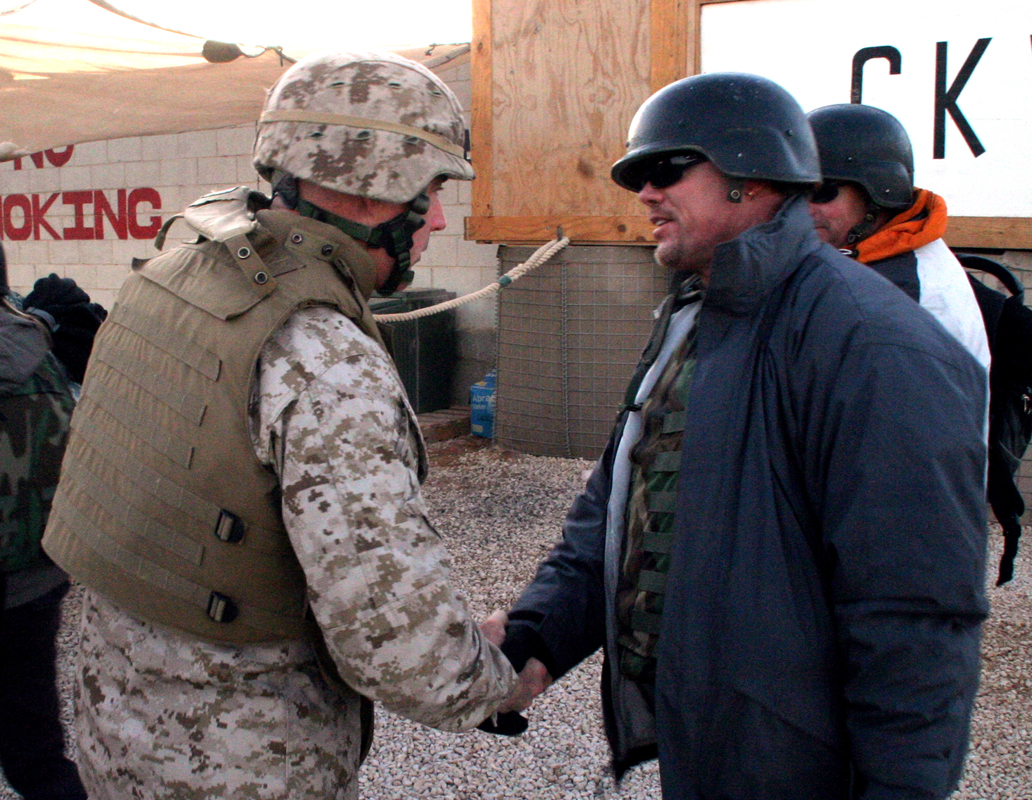 CAMP KOREAN VILLAGE, Iraq (Dec. 29, 2006) - Col. Brian D. Beaudreault, commanding officer, en:15th Marine Expeditionary Unit greets Jim McMahon, former Chicago Bears quarterback, during his visit here. Marines of the Camp Pendleton based 15th MEU (SOC) arrived in late November to provide security to this region of the Al Anbar Province. (Official USMC photo by Pfc. Timothy Parish) (Released)